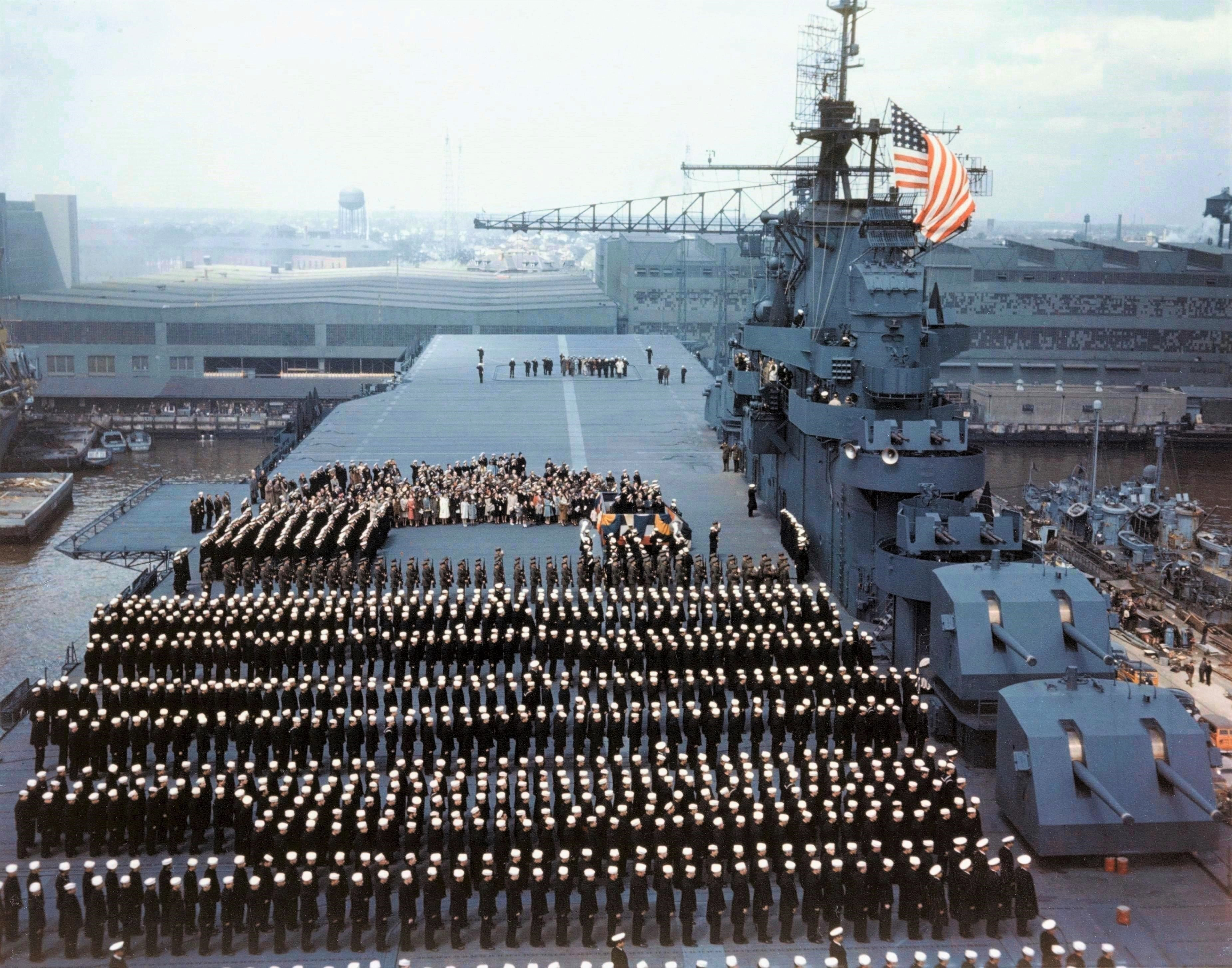 The crew of the U.S. Navy aircraft carrier USS Yorktown (CV-10) stands at attention as the National Ensign is raised, during commissioning ceremonies at the Norfolk Navy Yard, Virginia (USA), on 15 April 1943. Yorktown is freshly painted in Camouflage Measure 21. Two steel-hull submarine chasers (PC) are at right, on the other side of the pier.